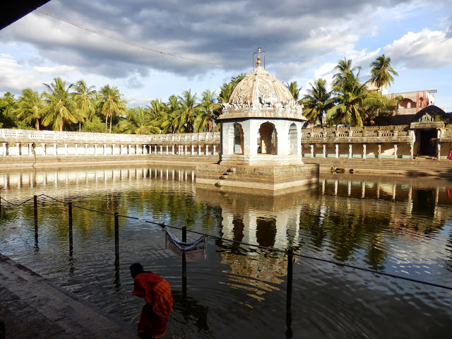 வைதீஸ்வரன் கோவில்(view of the temple tank)